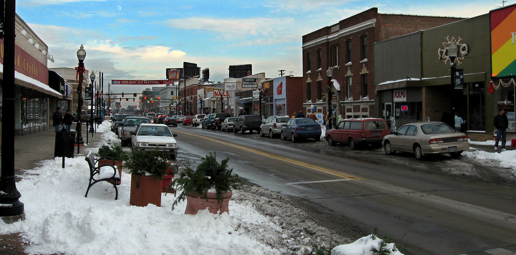 Downtown Ferndale, MI c. winter 2005